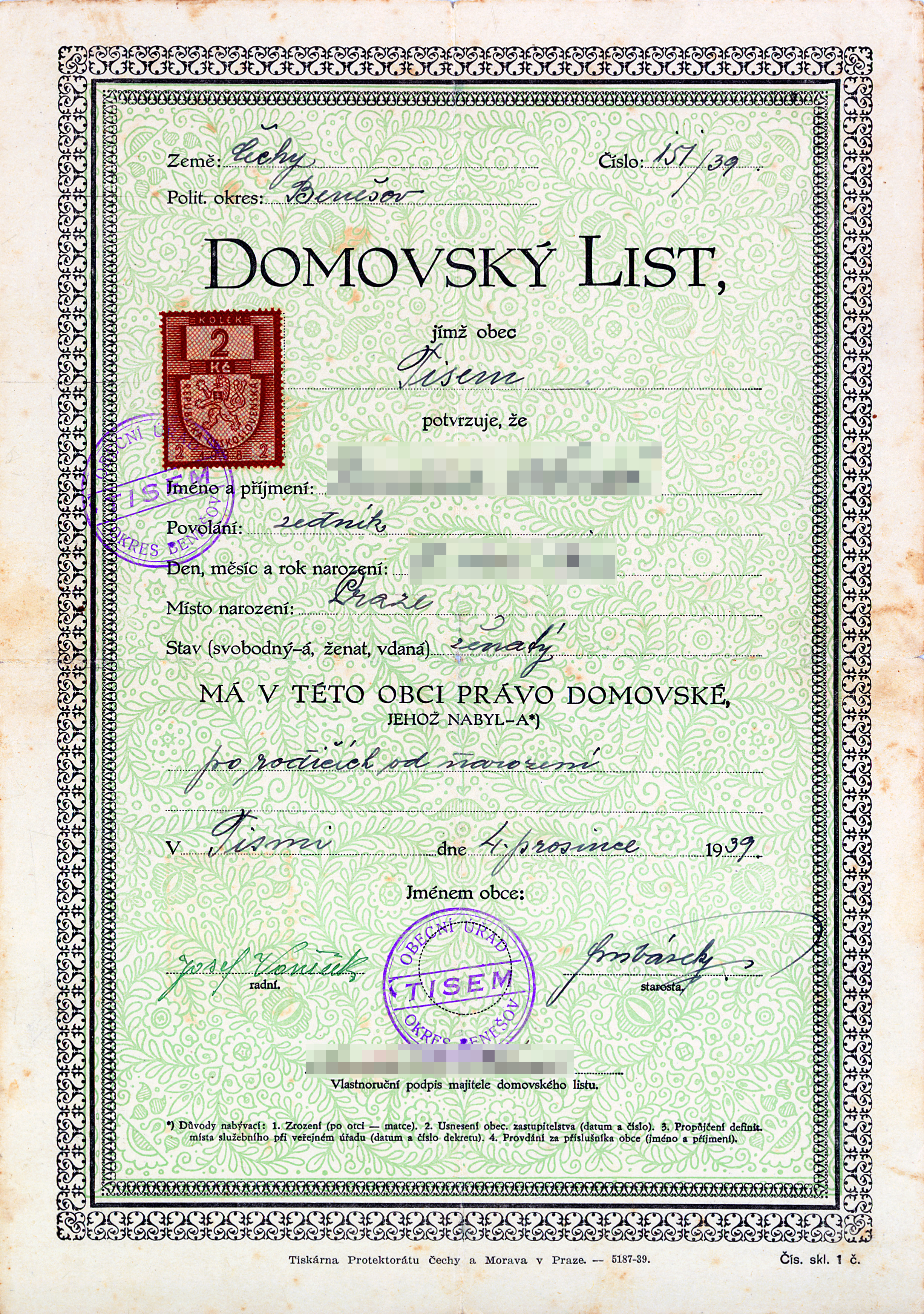 Domicile certificate (native parish), Protectorate of Bohemia and Moravia, 1939